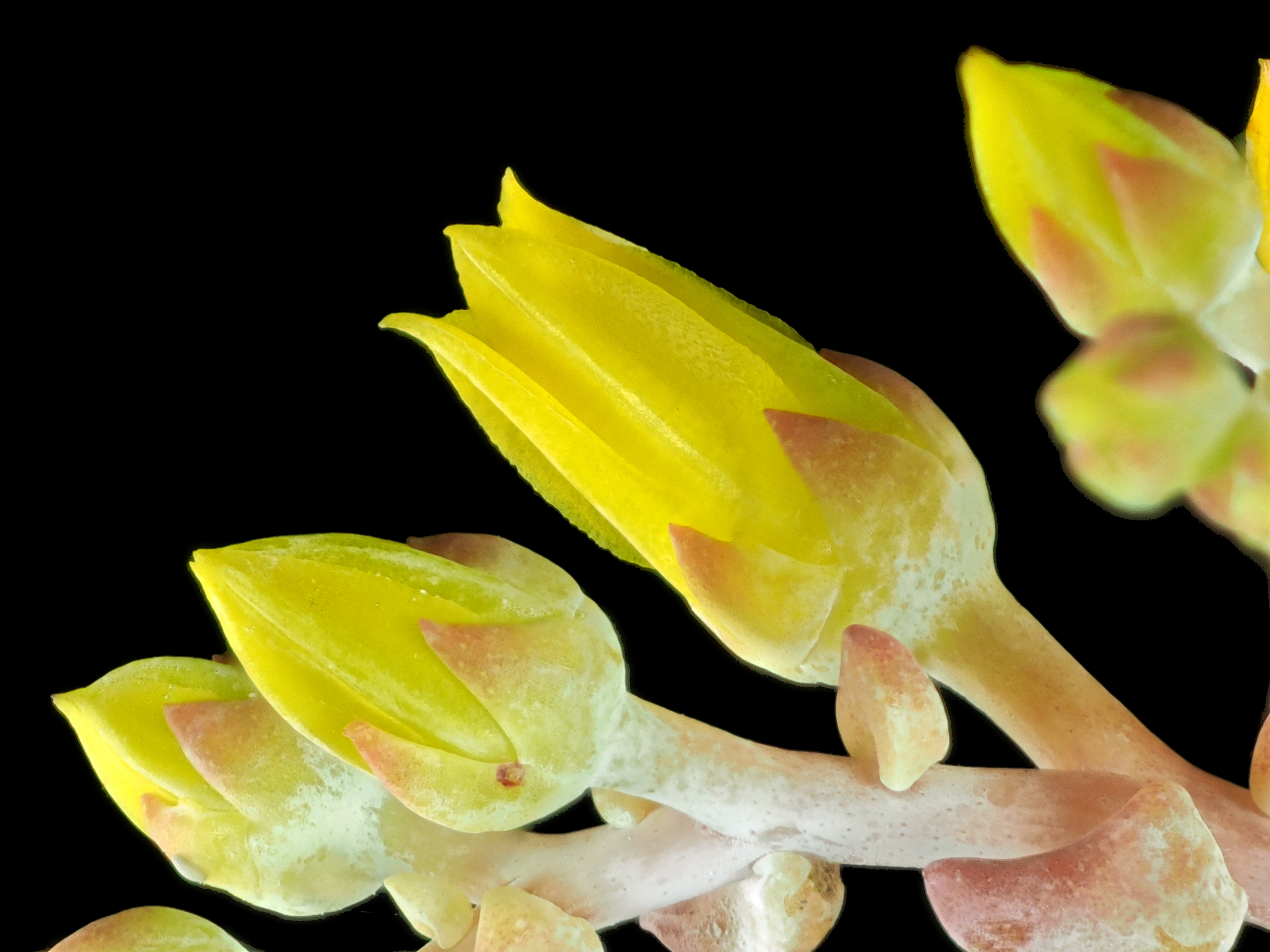 Dudleya caespitosa—sand lettuce. Along the coast of California from Mendocino County southwards, although as a rule of thumb: if you find a Dudleya growing along the coast north of the Golden Gate it will be Dudleya farinosa, South of the Golden Gate, Dudleya caespitosa. You will find this Dudleya in many of the iconic photos of waves splashing against the rocks at Big Sur. The plant the provided the flowers photographed grows at Regional Parks Botanic Garden located in Tilden Regional Park near Berkeley, CA.